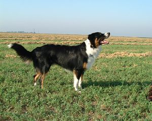 Tricolor English Sheepdog